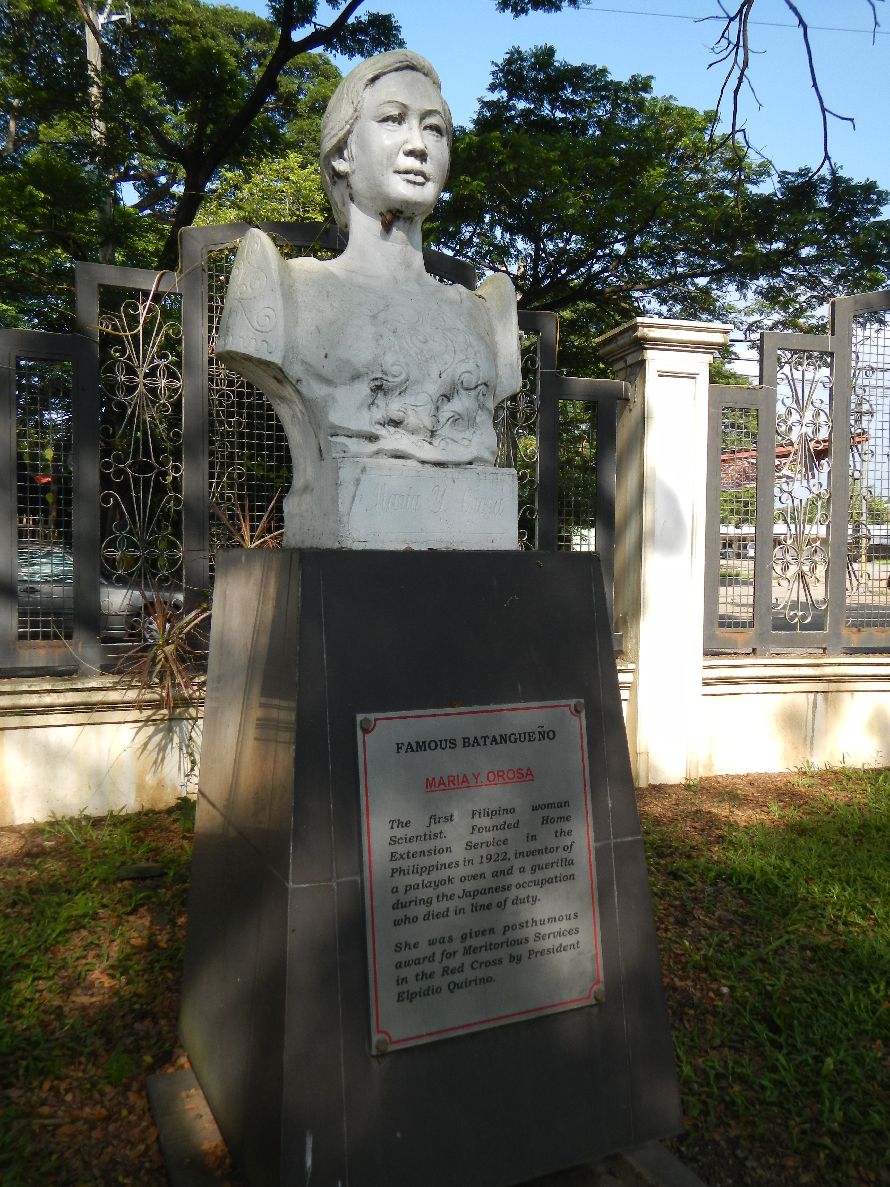 Upload Wizard photos -- (general description of landmarkds, town, church) -Historical Park and Laurel Park - (man-made parks at the Provincial Capitol Complex in Barangay Kumintang Ibaba - with a Multi-Purpose Center used as basketball court, volleyball court and dormitory, for a seminar and meeting venues; the sculpture work entitled "Diwa ng Batangeuno" done in bronze/steel by Ed Castrillo portrays the vitues of the Batanguenos such as nobility, industriousness, beauty and wisdom[1]) - Monuments, Busts of - Maria Orosa[2] Maria Orosa e Ylagan; Claro M. Recto[3]; Dr. Baldomero Roxas [4]; Feliciano Leviste[5]; Dr. Deogracias V. Villadolid - Profiles of Filipino Fisheries Scientists - University of the Philippines Los Baños Limnological Research Station[6]; Jose Diokno[7] - at the - Batangas [8] Provincial Capitol [9] Coordinates: 13°45'55"N 121°3'50"E Batangas City (the largest and capital city of the Province of Batangas, the "Industrial Port City of Calabarzon", 2010 census, the city has a population of 305,607 people).